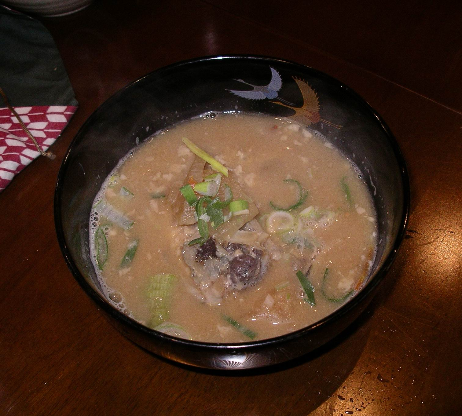 青森県弘前市『あいや』のじゃっぱ汁。- "Jappa-jiru", a fishy miso soup from Hirosaki, Aomori. Up and Down Japan (Author's another URL: here)